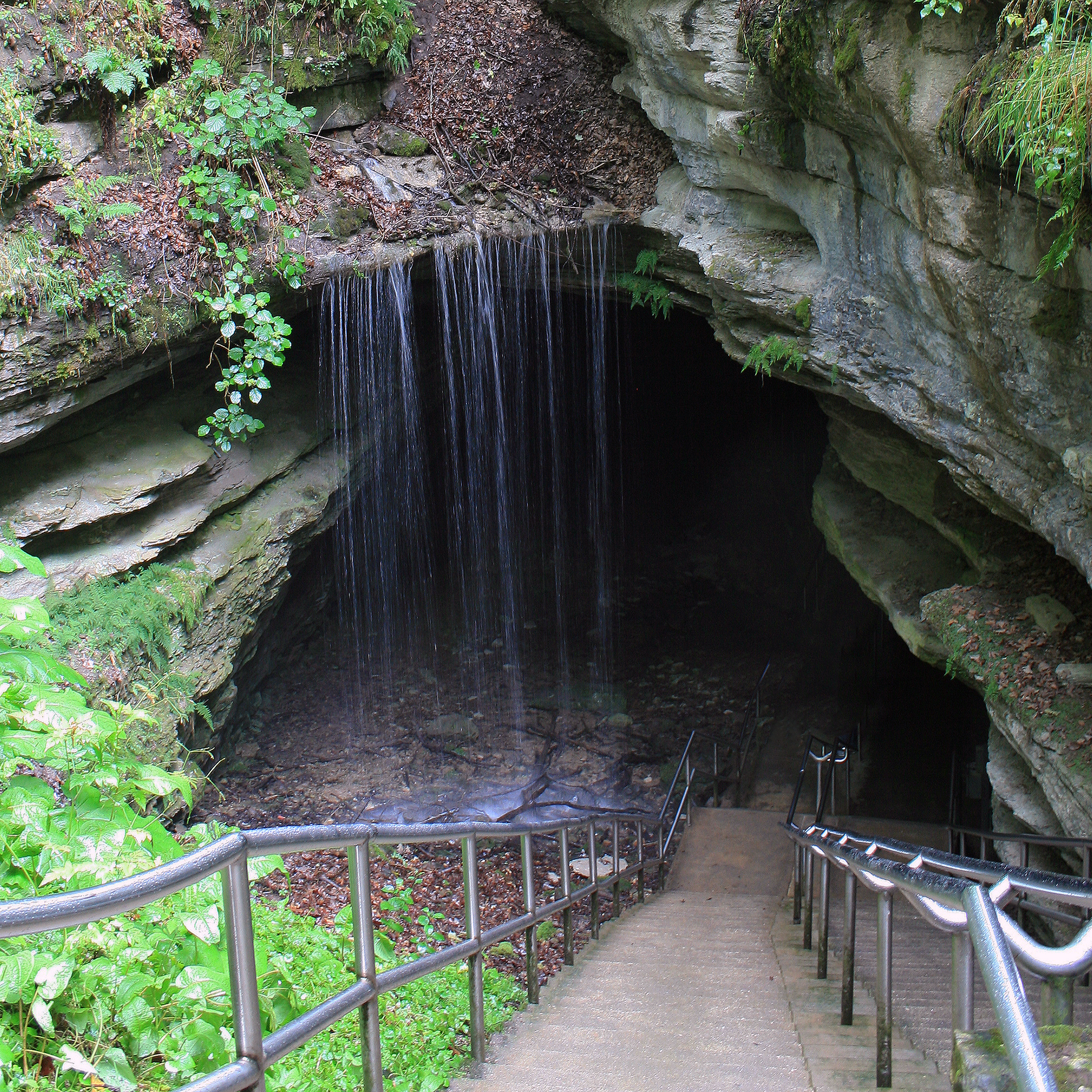 "The Historic Entrance to Mammoth Cave is a natural opening that has been used by people for 5,000 years."